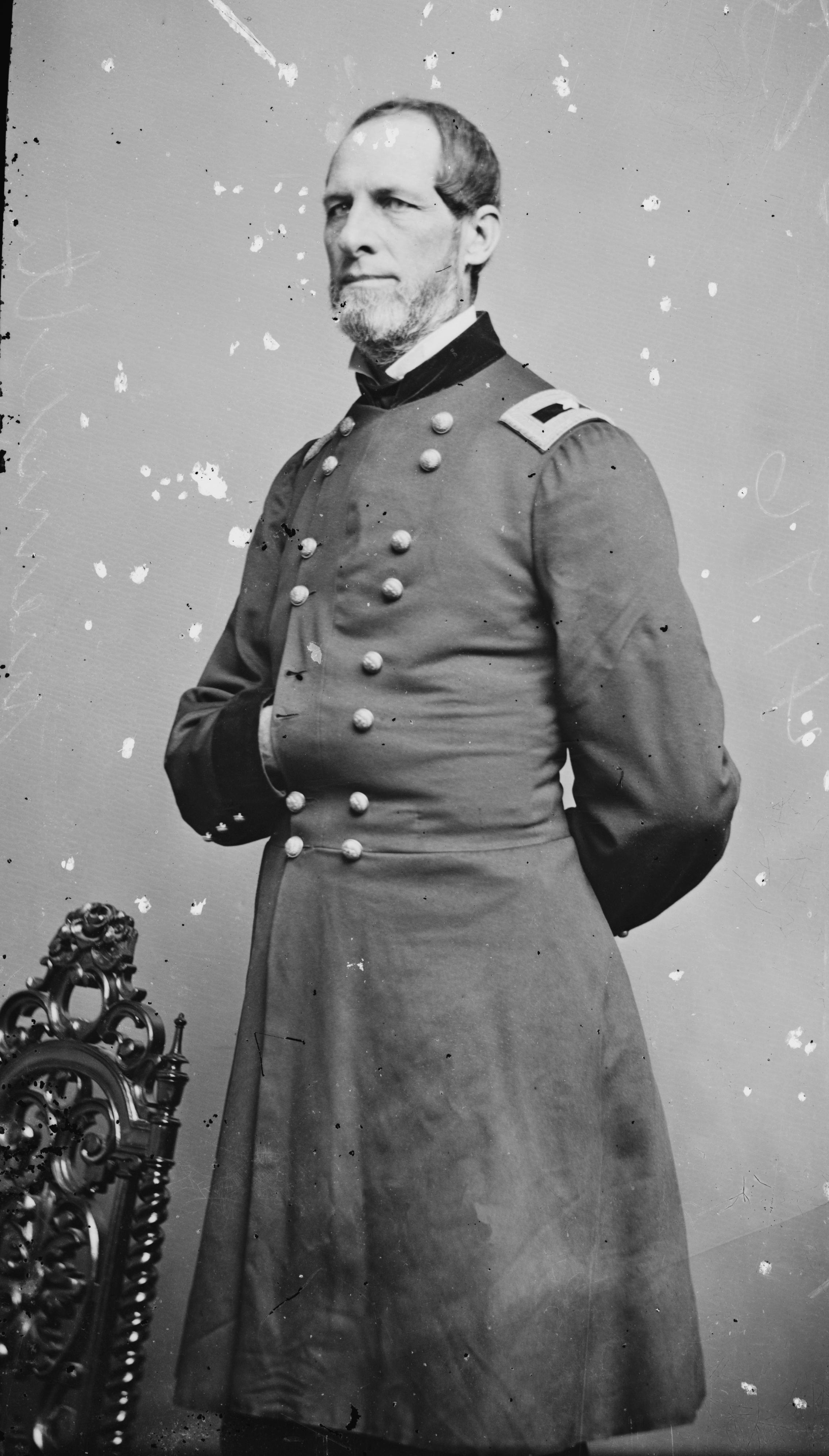 Solomon Meredith. Library of Congress description: "Gen. Meredith"